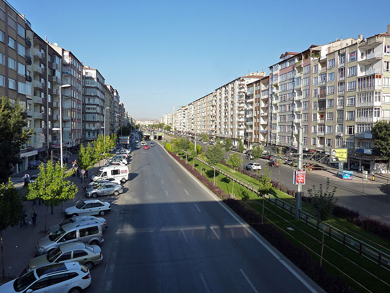 Sivas avenue in Kayseri